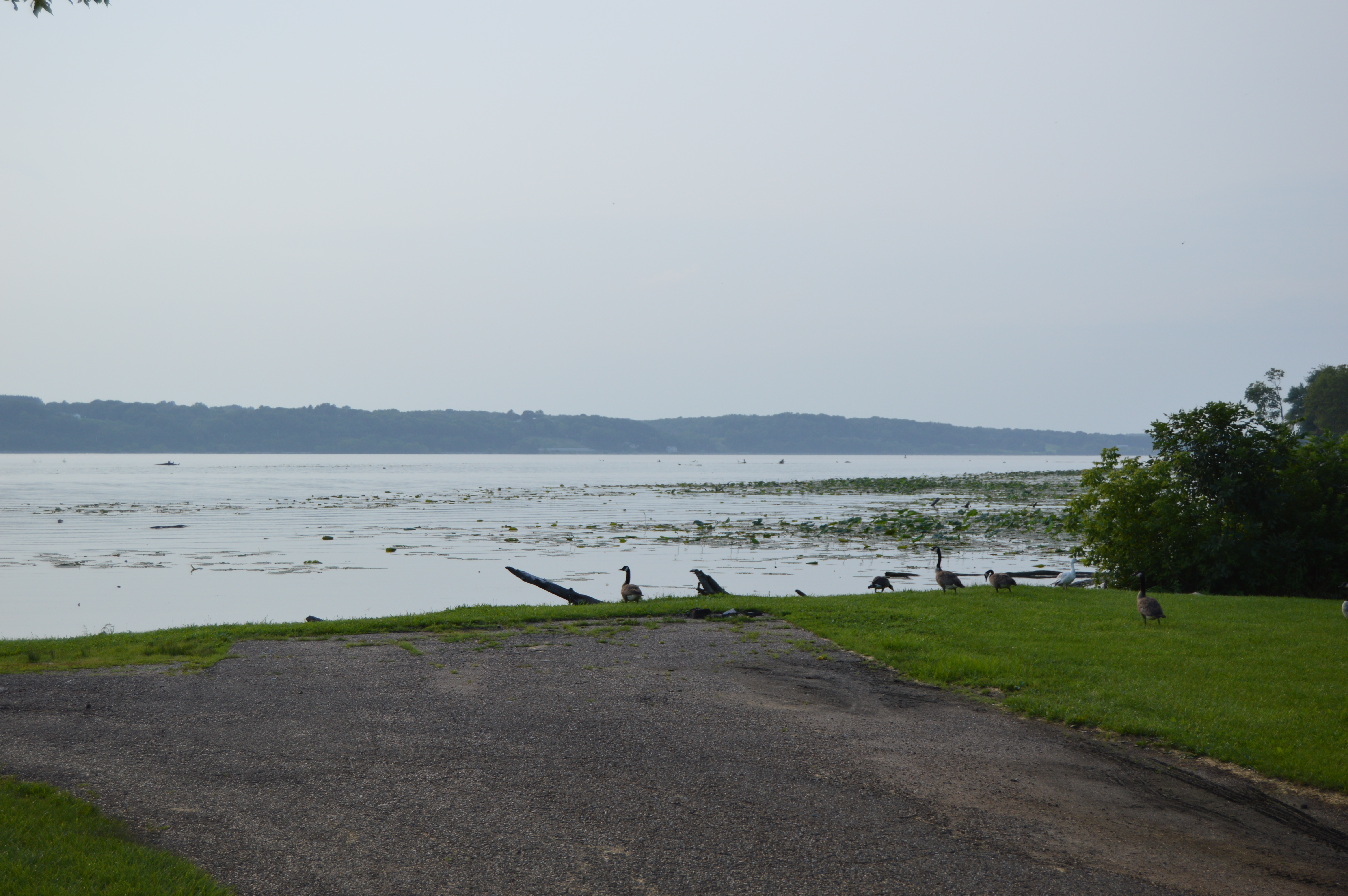 Looking upstream from the Waggoner Creek picnic area on the Mississippi River along Illinois Route 96 in Montebello Township, Hancock County, Illinois, United States.